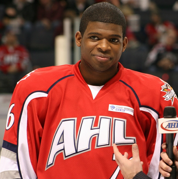 PK Subban during an interview at the 2010 AHL All-Star game